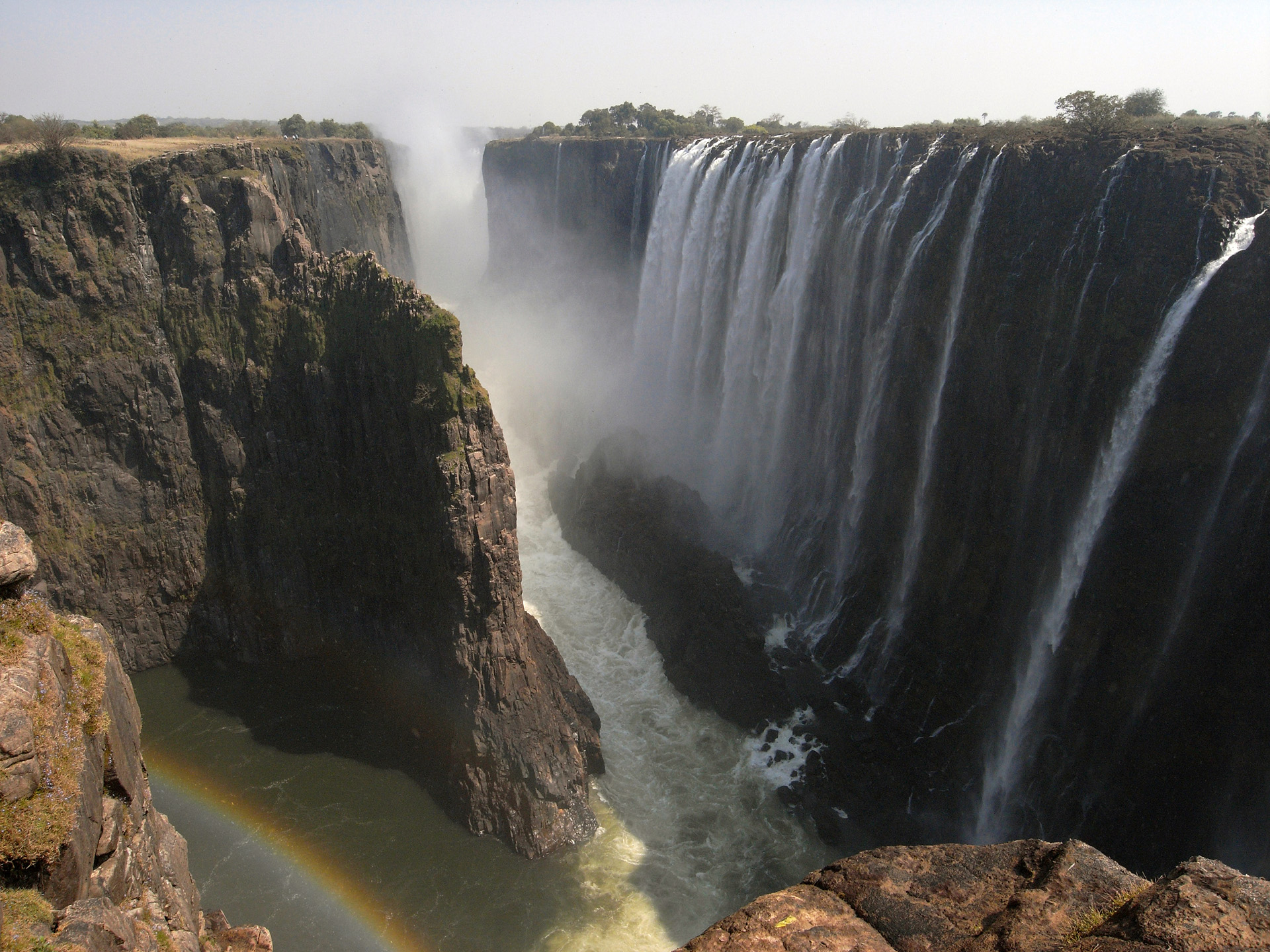 Victoria Falls from Zambia side (August 2009).jpg